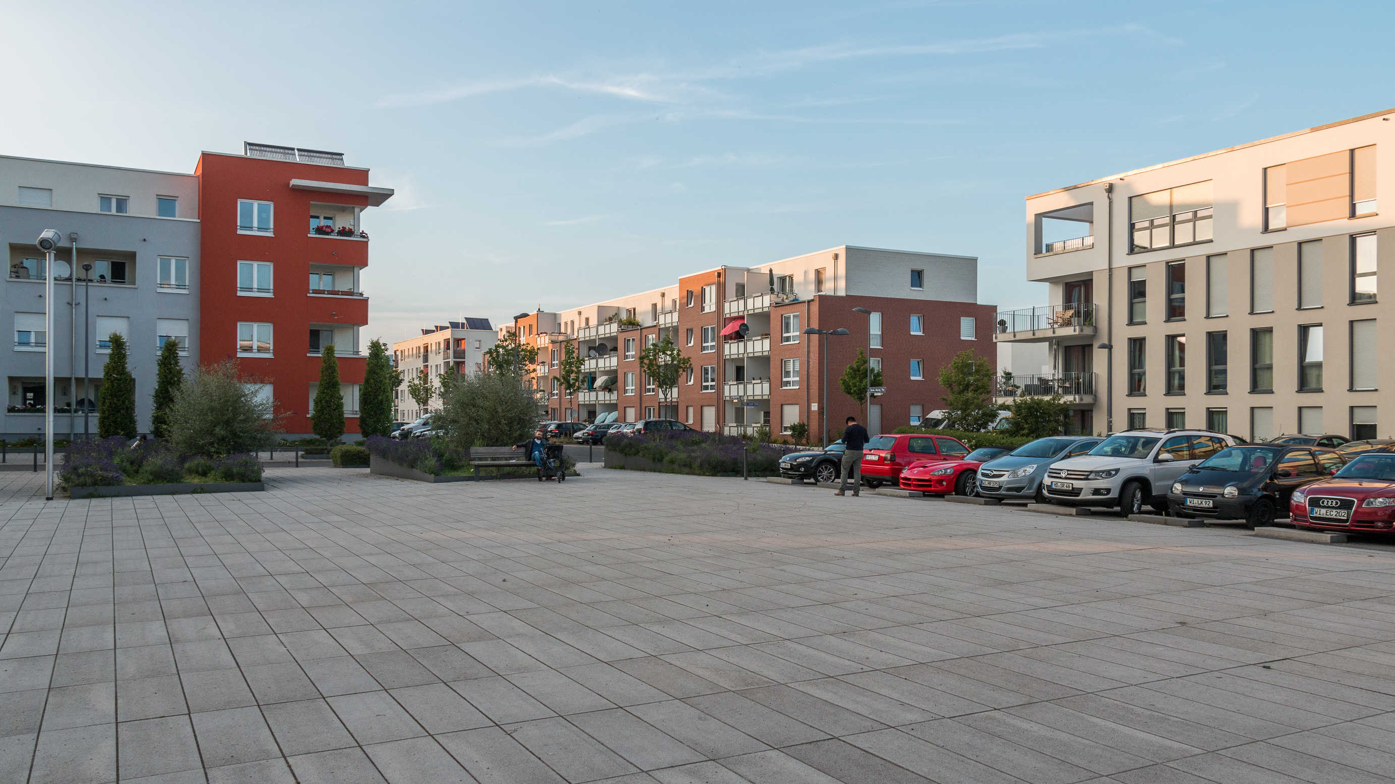 The Christa-Moering-Platz in the Künstlerviertel